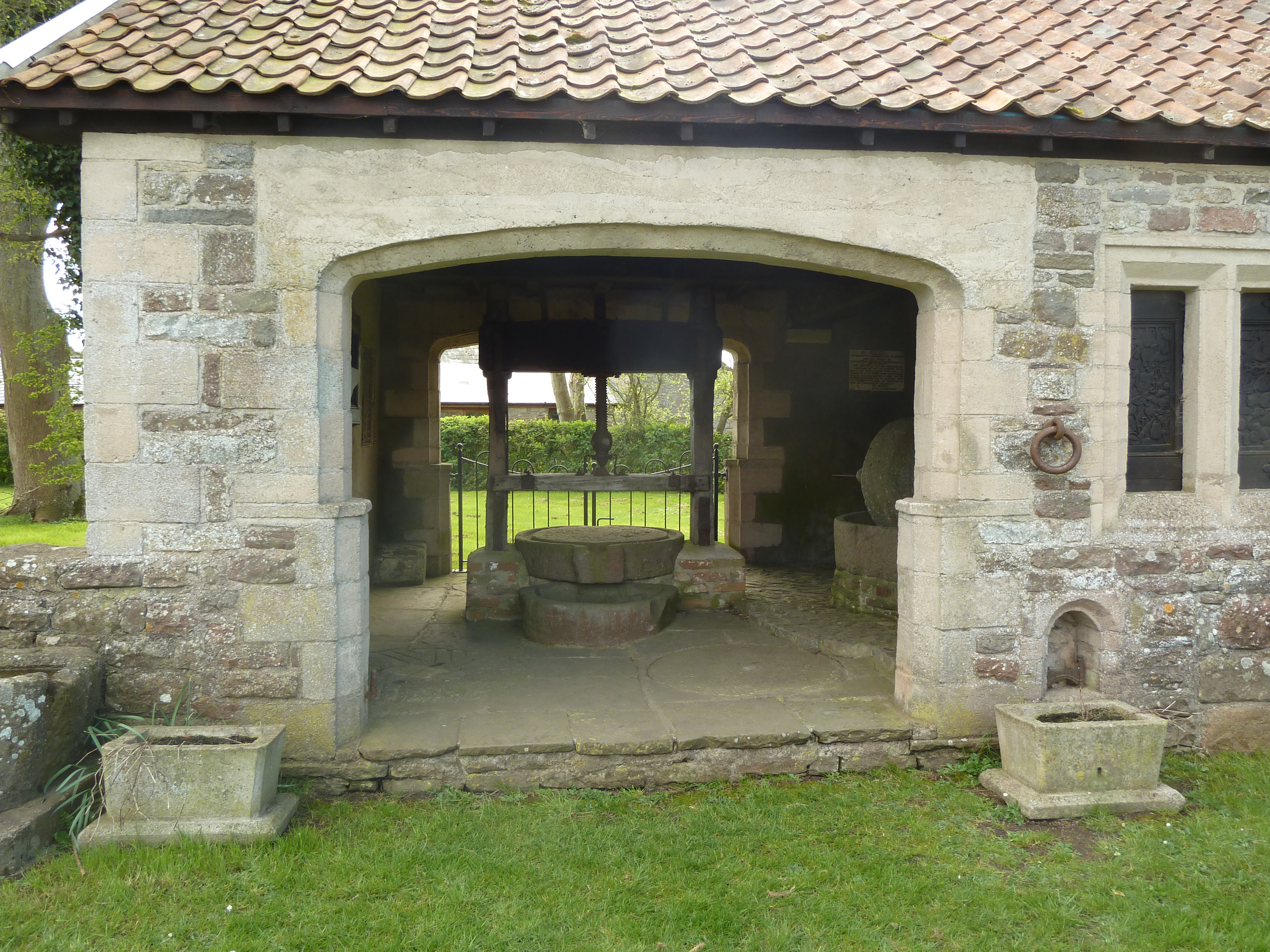 Cider press in the museum barn at Redwick